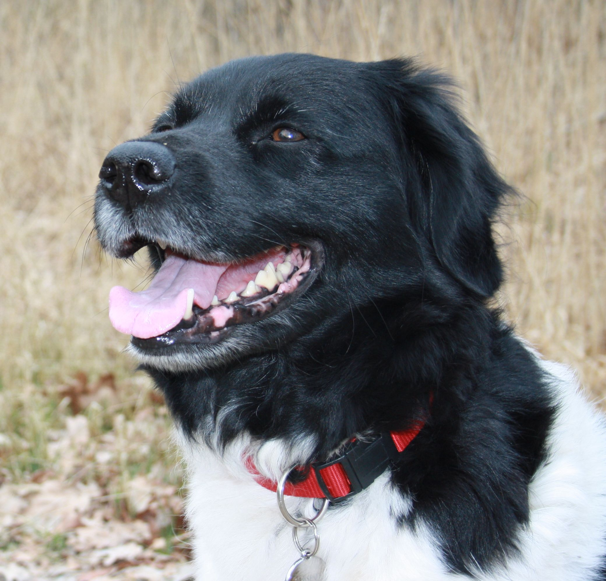 this is lobke on flickr